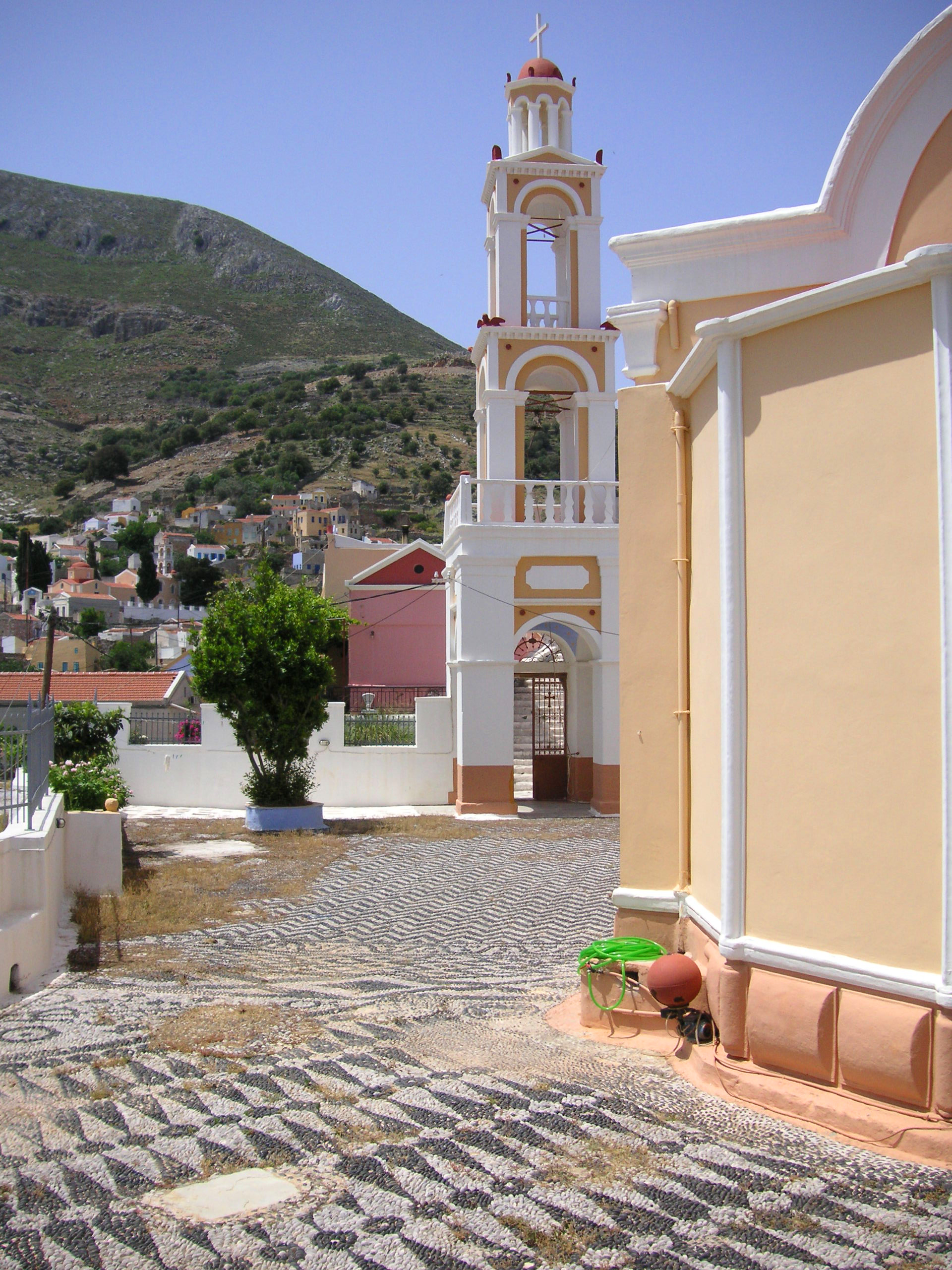 Symi, church in Ano